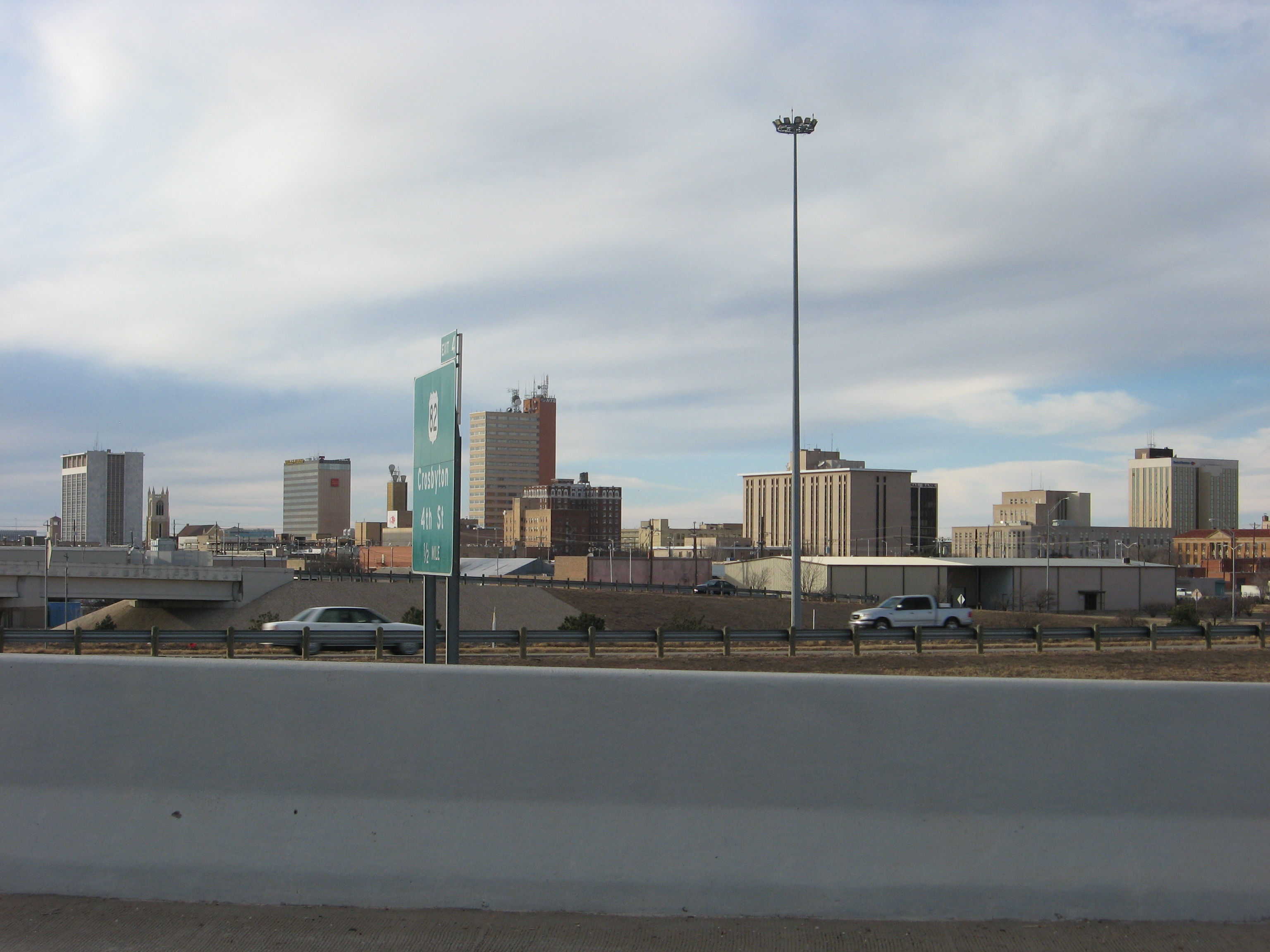 An afternoon photograph of Downtown Lubbock, Texas taken at about 4:50pm; notable buildings in the photograph include the Metro NTS Tower, the Wells Fargo Center, the Mahon Federal Building, and the Bank of America Office.